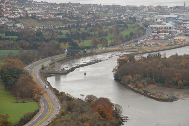 Narrow Water near Warrenpoint. Narrow Water seen from the Flagstaff. The Newry - Warrenpoint road is on the left and Warrenpoint harbour estate 253921 is at top right. The Ferry Wood is at middle right 234487.